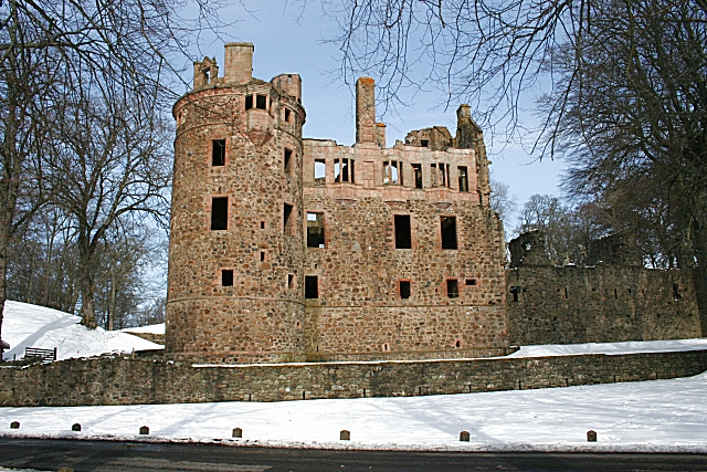 Huntly Castle The south façade of the castle from the opposite side of the approach road. Note how the upper floors have more elaborate, larger windows, while the ground floor has no openings at all on this side. Living evidently became more gracious as one went higher up.